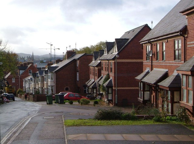 Jesmond Road, Exeter Modern semis, then an inter-war terrace, and in the distance the United Reformed church spire and the cathedral towers, plus the cranes at the Princesshay redevelopment. Bit of a blockage at the bottom of the road. Taken from Polsloe Road.